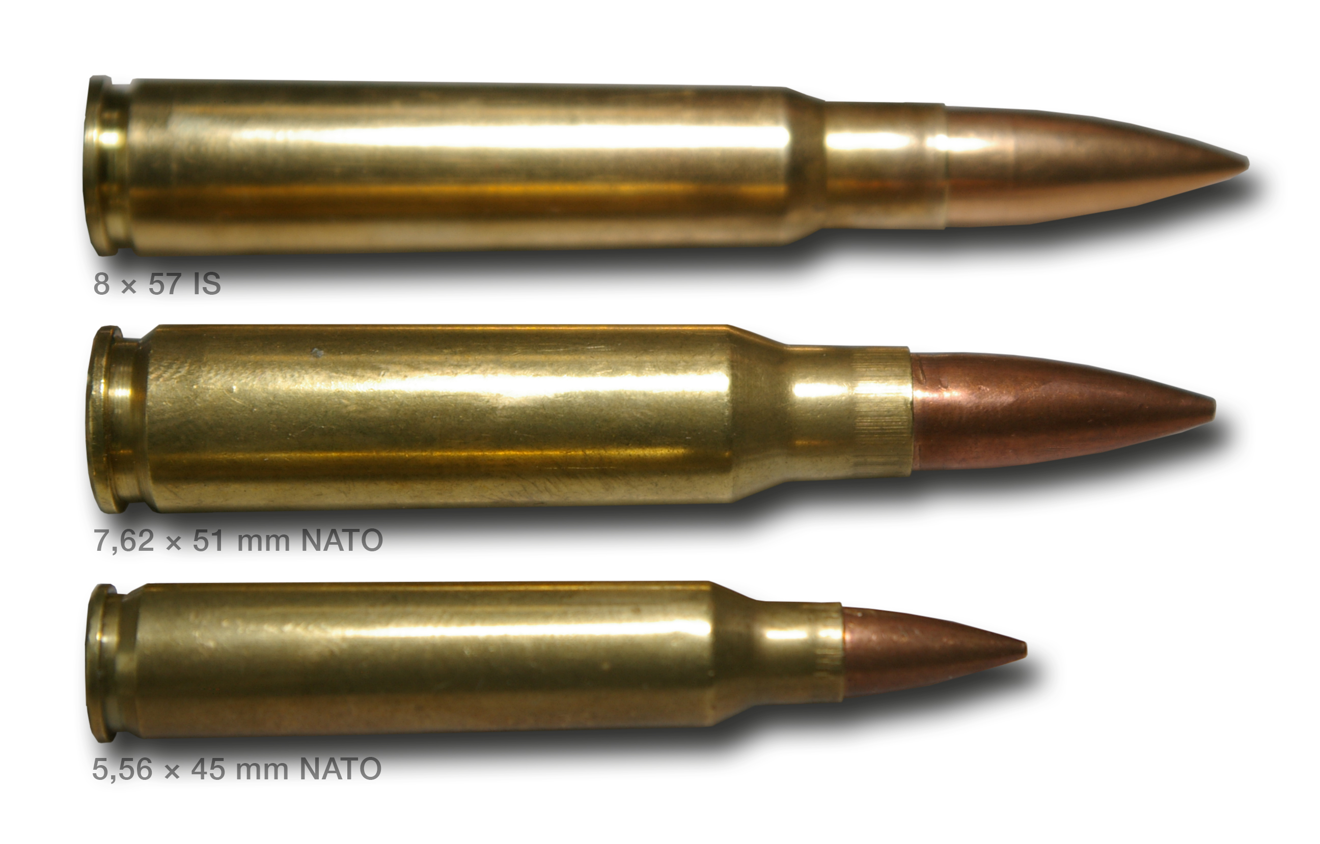 German ordnance. 8 × 57 mm IS Mauser, 7.62 × 51 mm NATO, 5.56 × 45 mm NATO (from top to bottom)